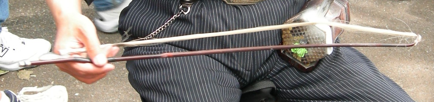 Cropped version of File:Seattle_Folklife_erhu_01.jpg. Intention is to capture the essence of the bow used to play the instrument for use in the English version article on Erhu. Joe Mabel, the copyright holder of this work, hereby publishes it under the following license: Attribution: Joe Mabel